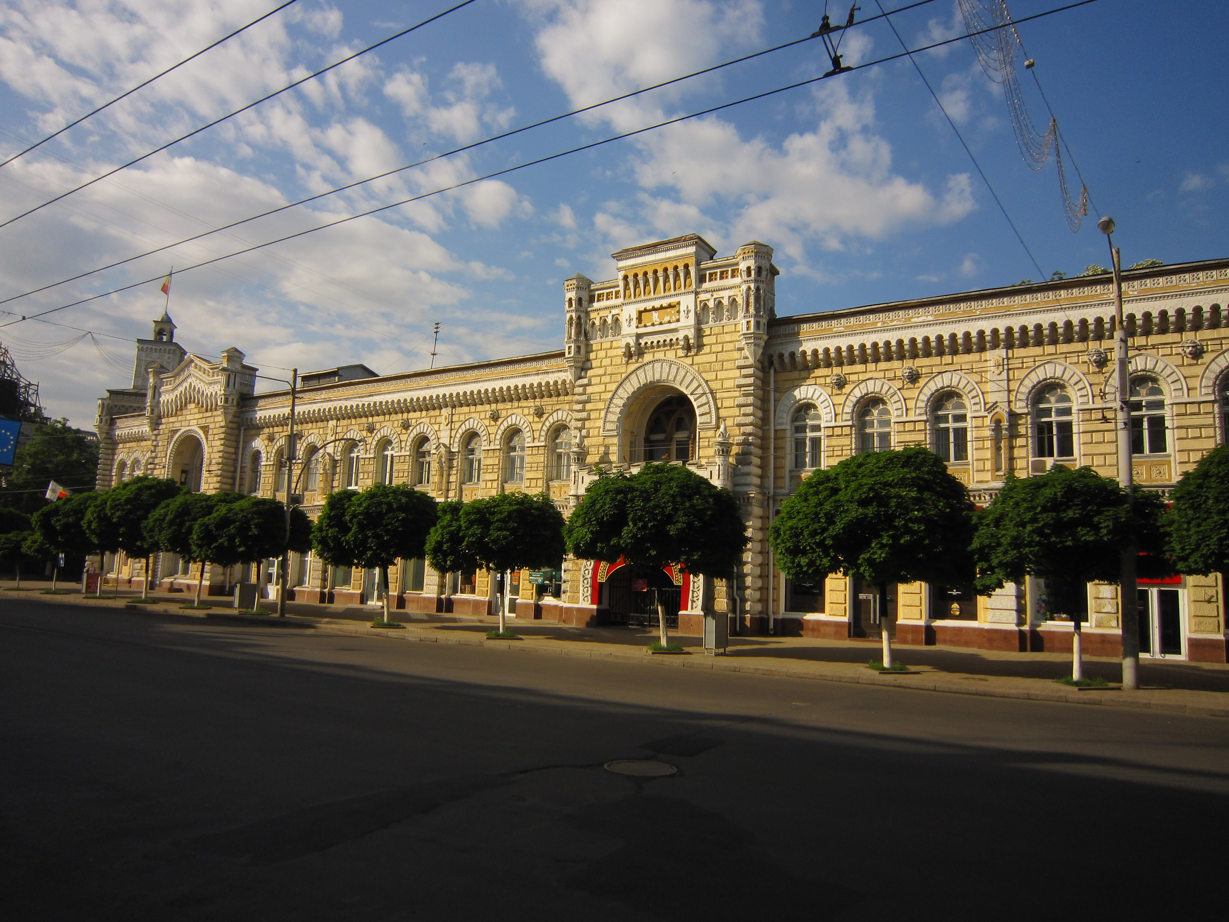 Building in Chișinău